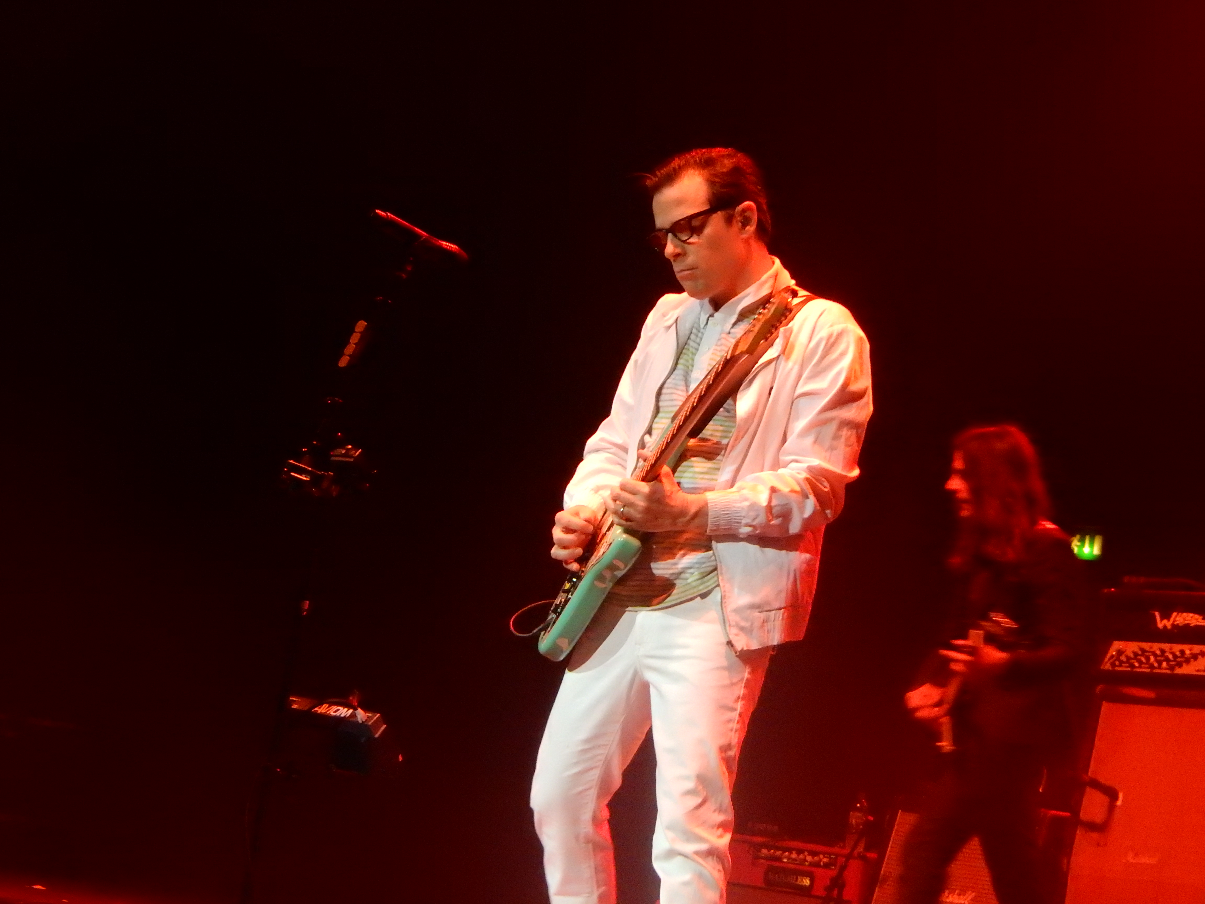 Weezer, Brixton Academy, London